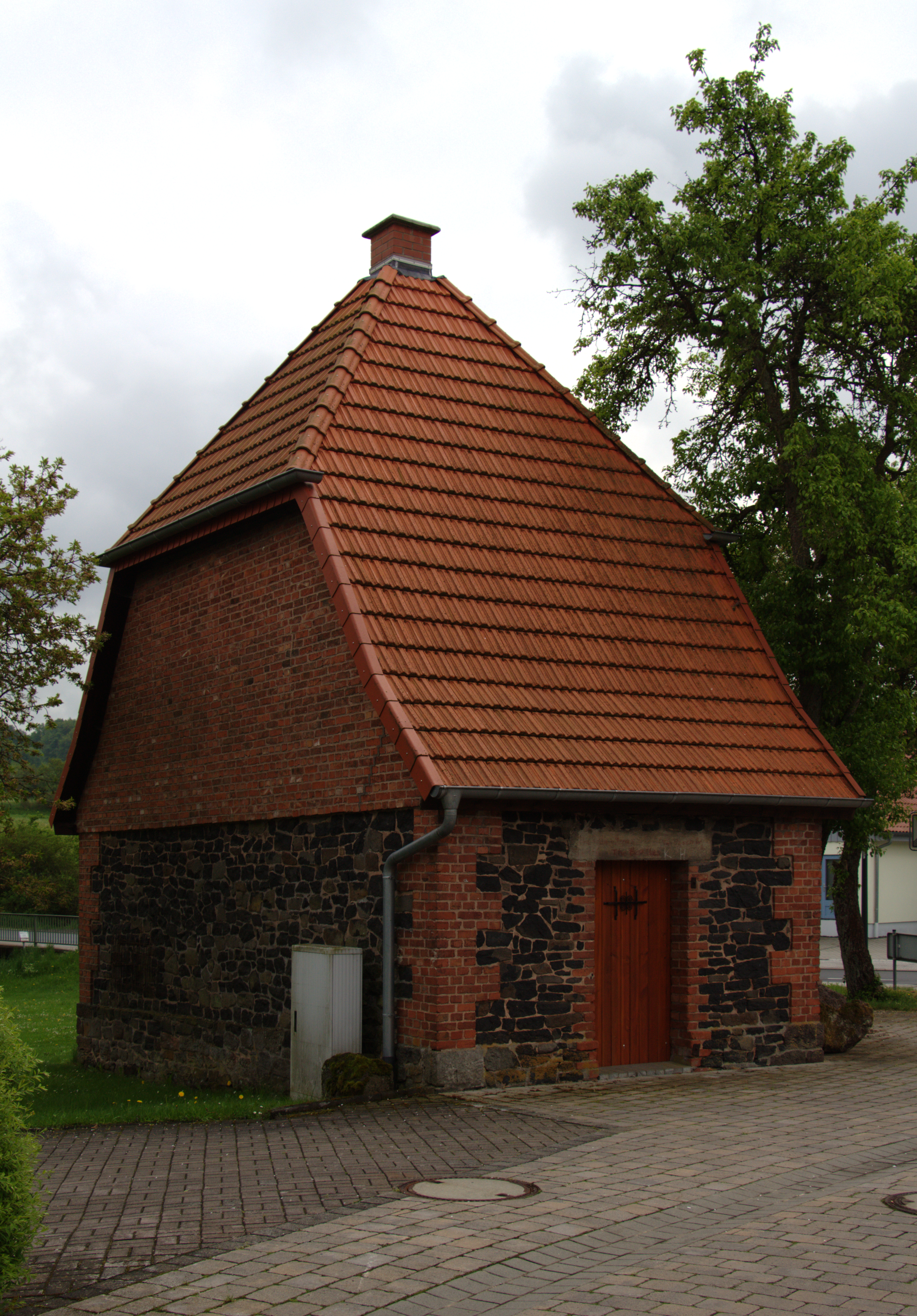 Building (Backhaus) in Poppenrod Buchenweg 2 , Hosenfeld, Hessen, Germany